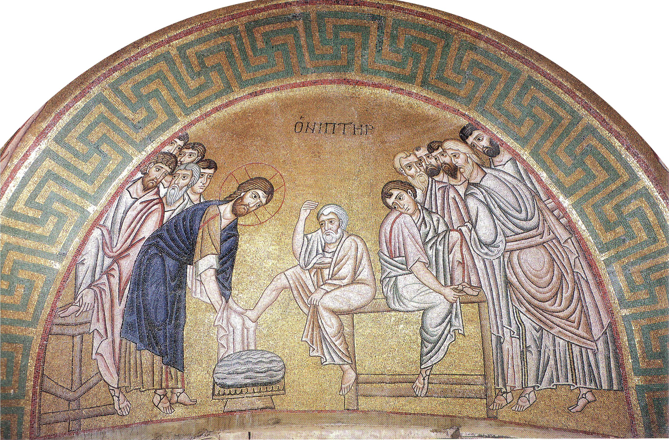 Mosaics in Hosios Loukas Monastery, Boeotia, Greece